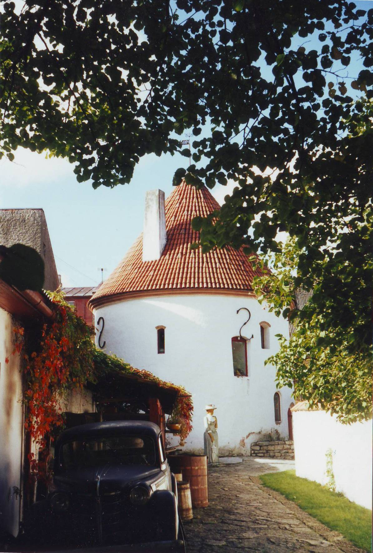 Pärnu Red tower